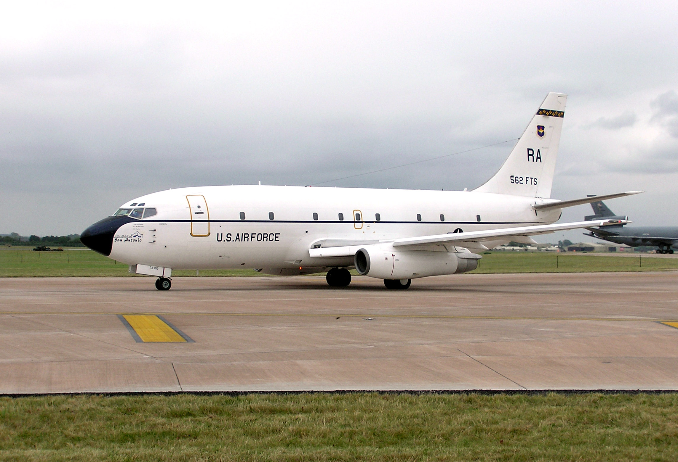 USAF Boeing T-43A (serial 73-1153) taxiing at the Royal International Air Tattoo, Fairford, Gloucestershire, England. Photographed by Adrian Pingstone in July 2005 and released to the public domain.